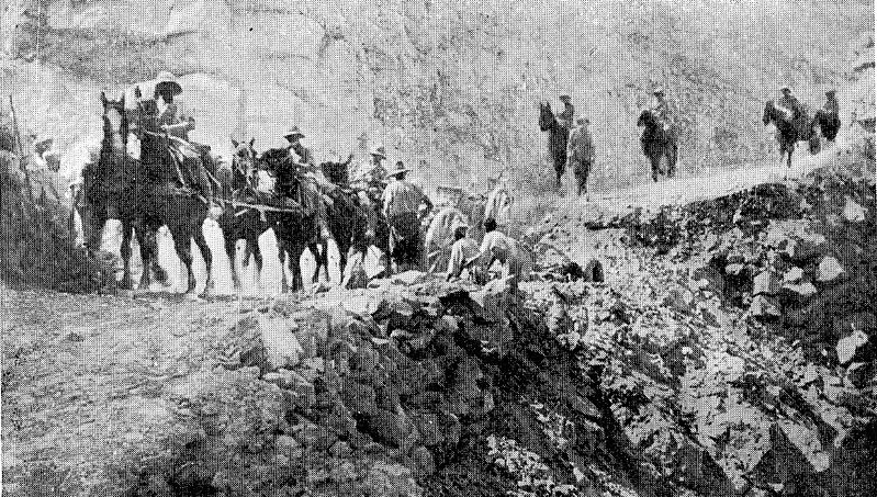 Photograph of artillery trying to get passed a damaged section of the main road from Jericho to Es Salt during the Third Transjordan attack by Chaytor's Force in September 1918 Other information copyright unrestricted